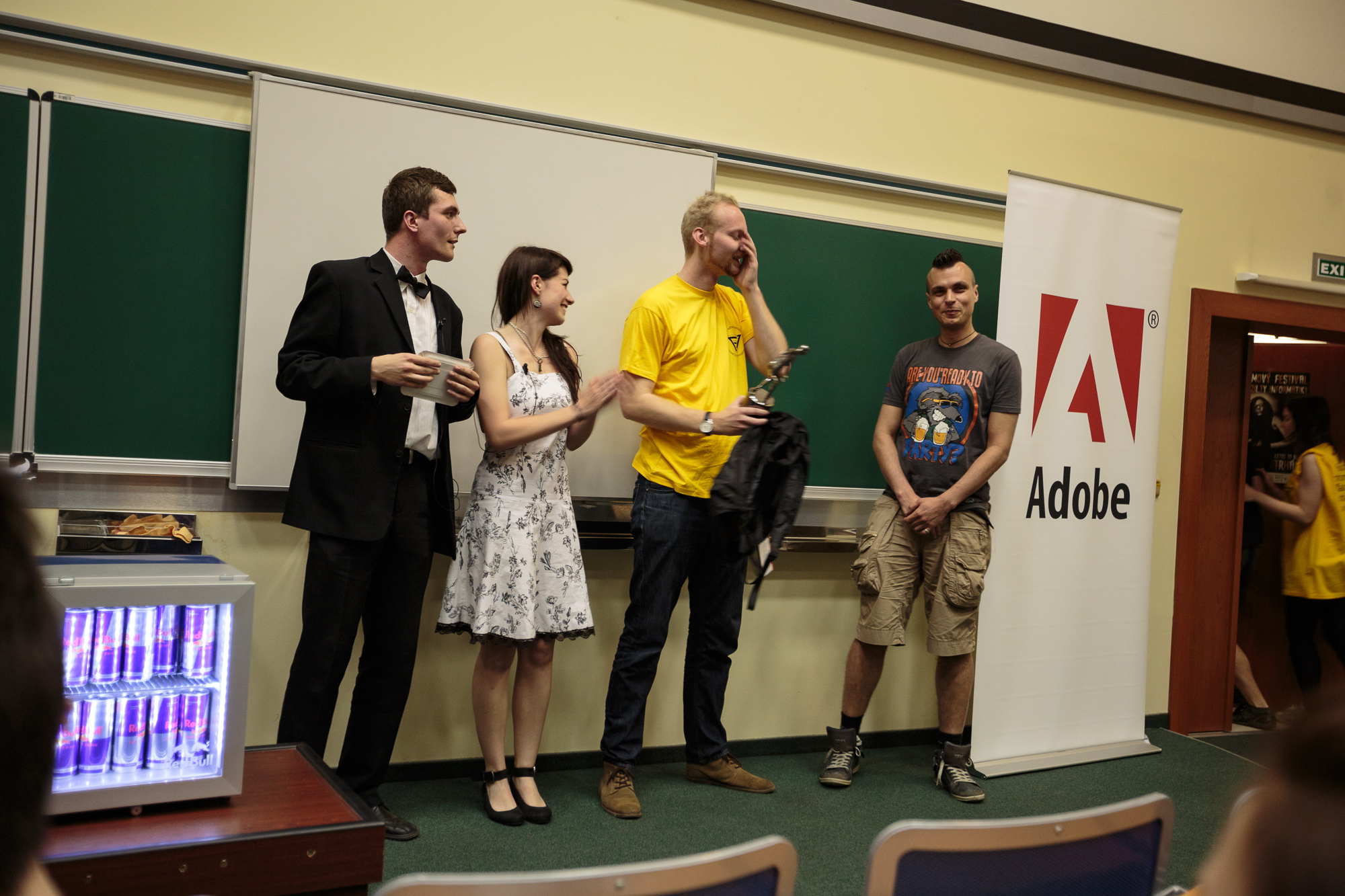 Faculty of Informatics Film Festival, Masaryk University, Brno, Czech RepublicEsperanto: Filmfestivalo de la Fakultato de informadiko, Masaryk-Universitato, Brno, Ĉeĥio